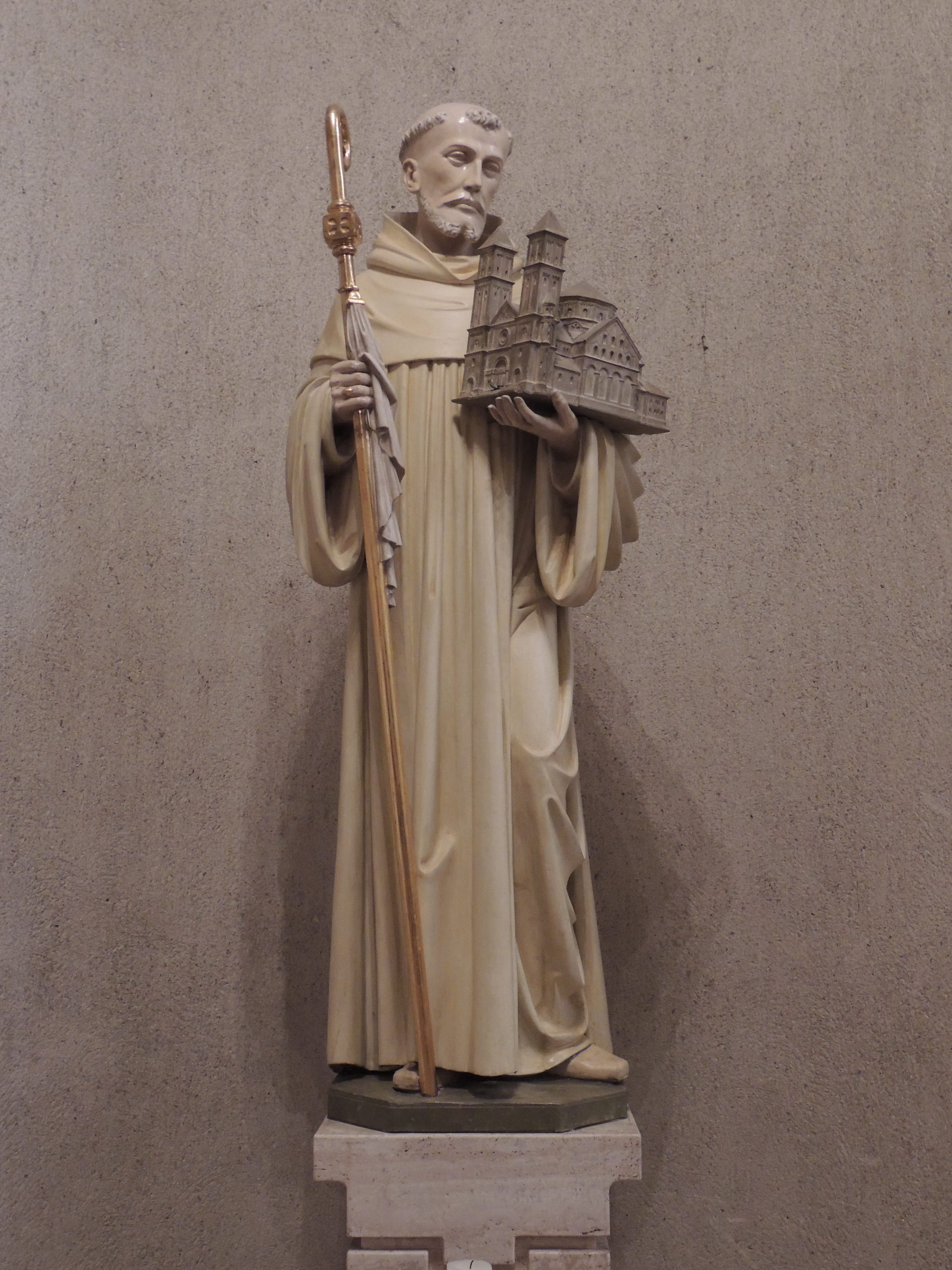 Statue of Bernard of Clairvaux in the St. Bernhard church in Frankfurt am Main-Nordend, in May 2014